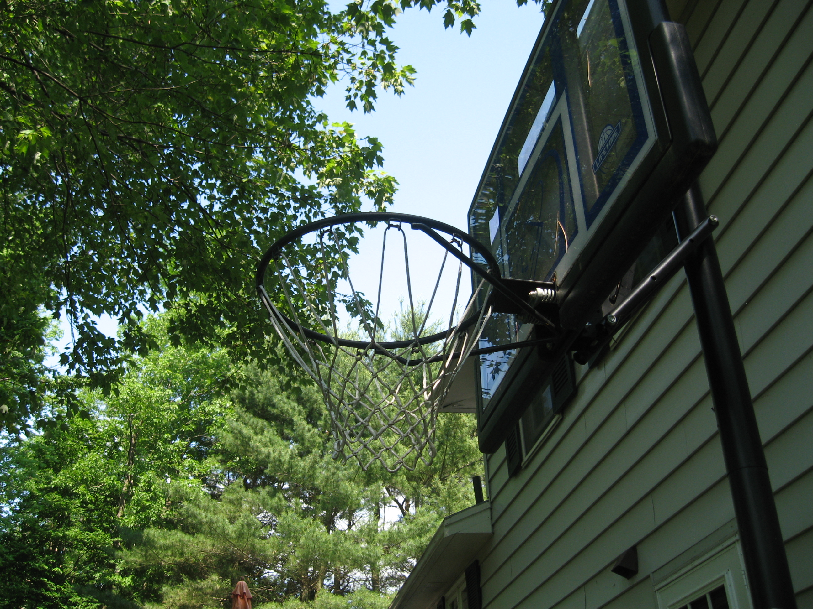 Typical backyard basketball hoop.